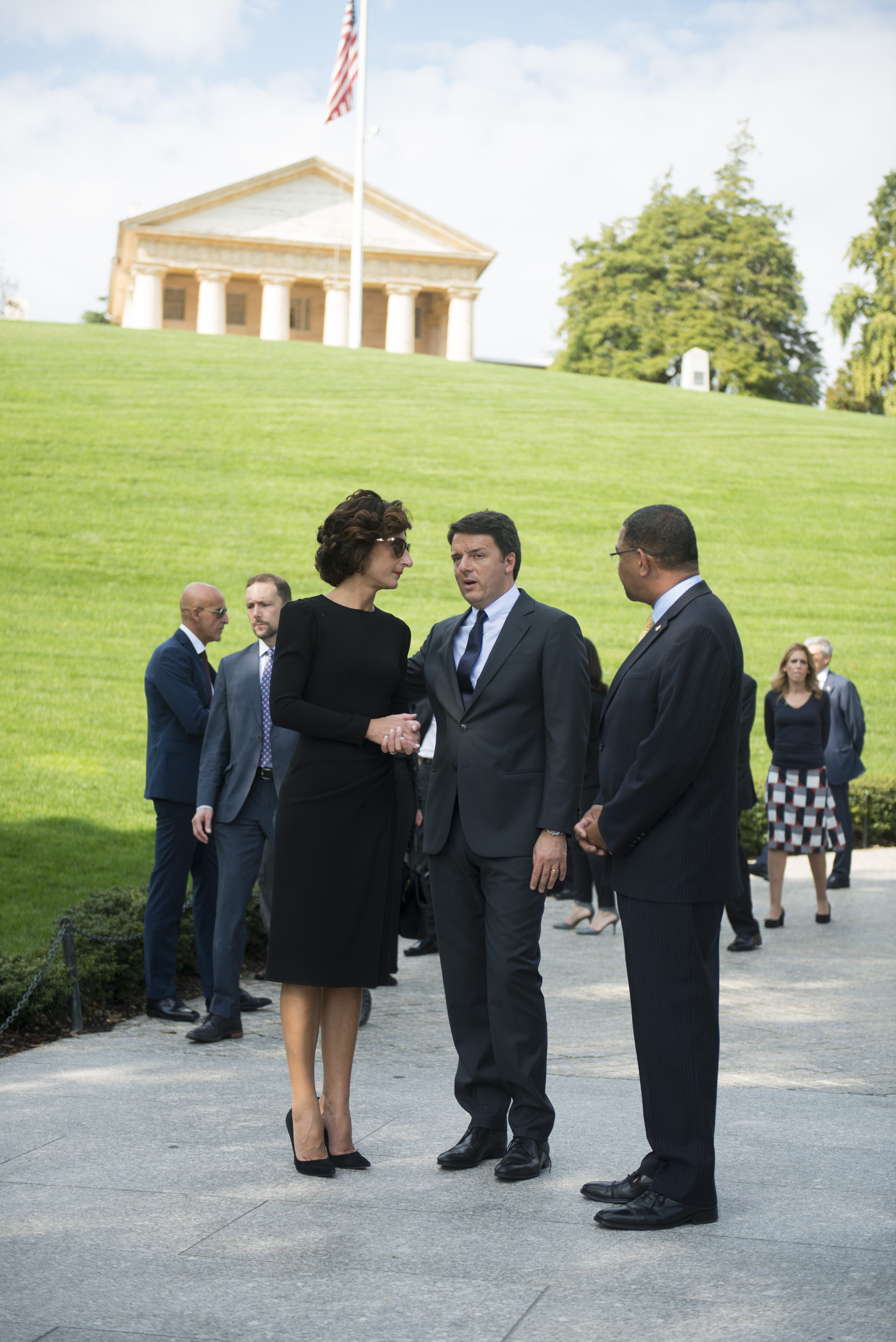 From the left, Prime Minister of Italyâs wife Agnese Landini, Prime Minister of Italy Matteo Renzi and Arlington National Cemeteryâs Deputy Superintendent for Cemetery Operations stand below Arlington House, near the gravesite of U.S. Pres. John F. Kennedy at ANC, Oct. 19, 2016, in Arlington, Va. Renzi laid flowers at JFKâs gravesite and a wreath at the Tomb of the Unknown Soldier. (U.S. Army photo by Rachel Larue/Arlington National Cemetery/released)